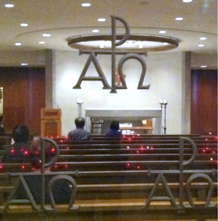 Sanctuary in lower church of St. John the Evangelist at 13th and Market Streets in Philadelphia, PA. Altar seen through glass panel etched with Alpha/Omega symbols.